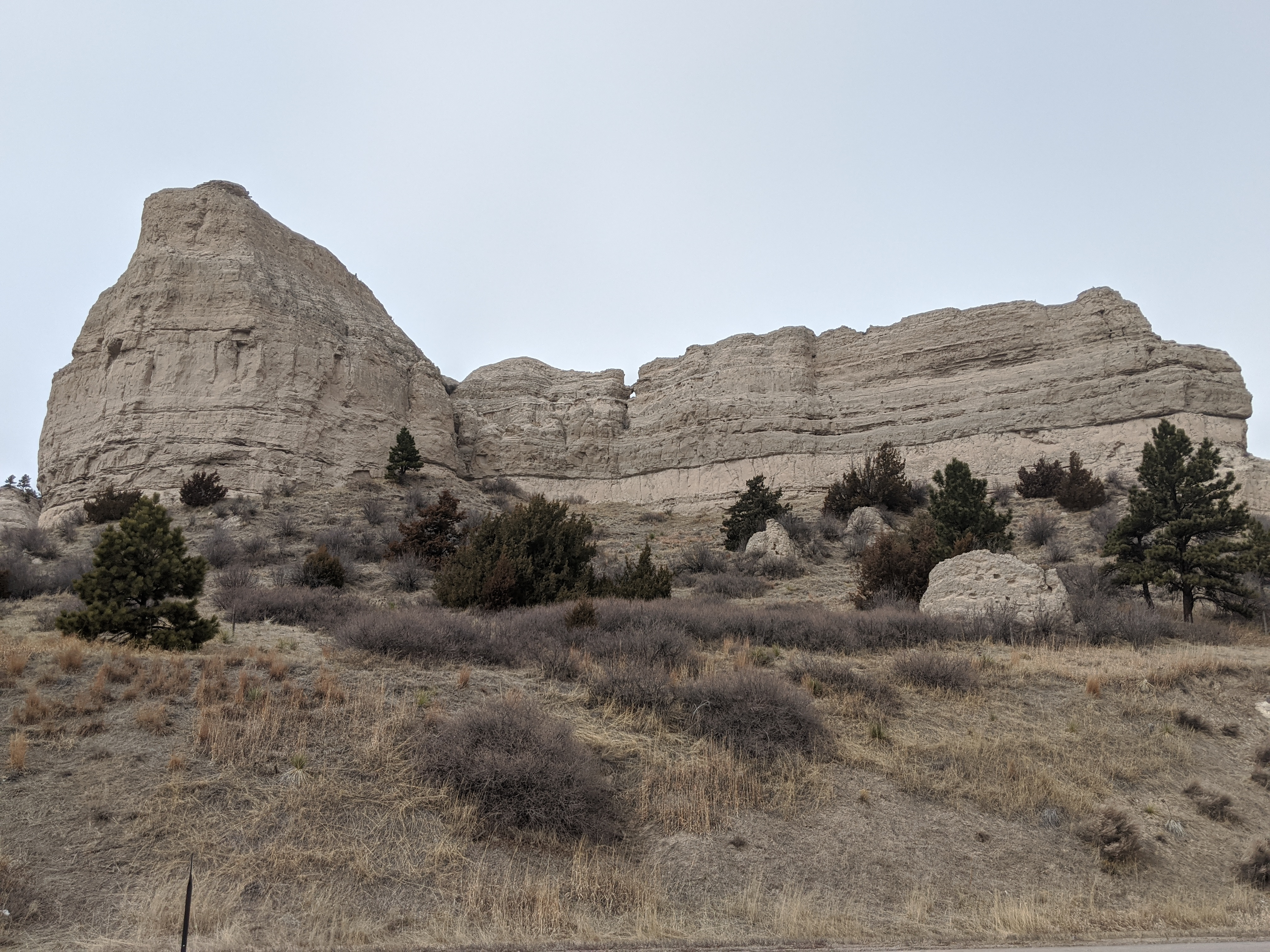 Butte in Wildcat Hills, Nebraska, seen from John McLellan, Jr., Expy, looking west